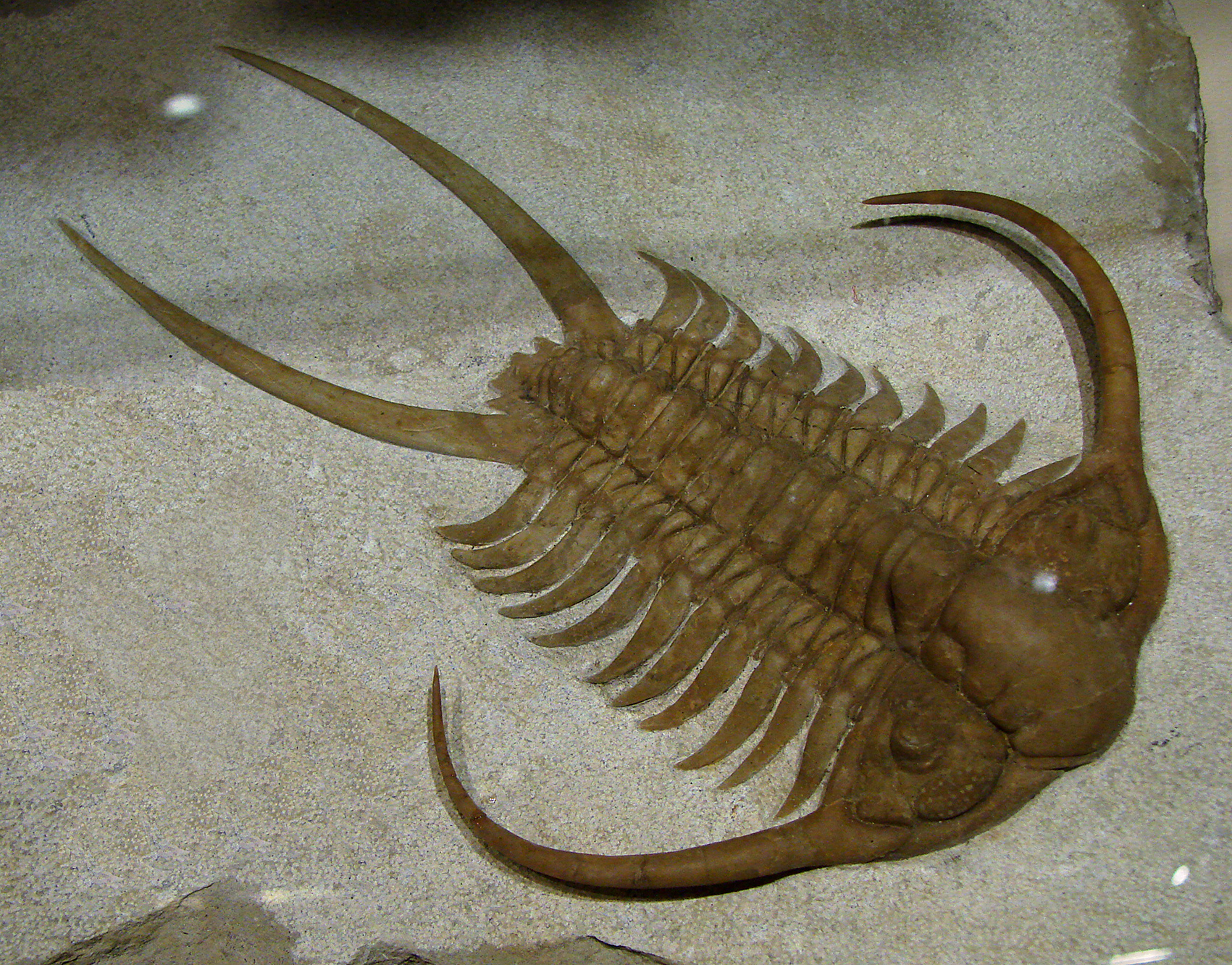 Paraceraurus (syn=Cheirurus), trilobite, Ordovicien moyen, proenance: Volchow River, Russie.